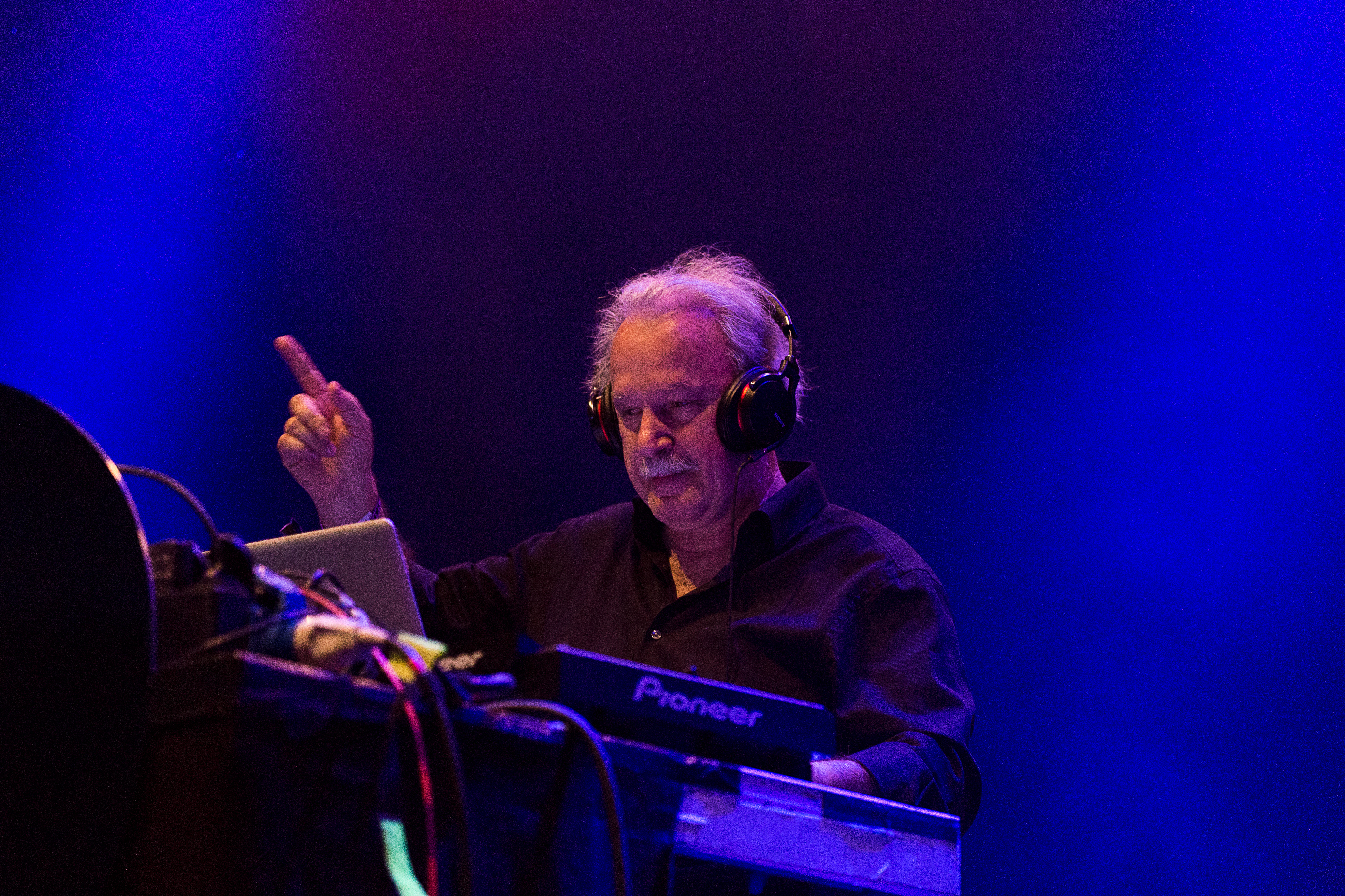 The Italian composer Giorgio Moroder at the Melt! 2015 in Ferropolis/Germany.